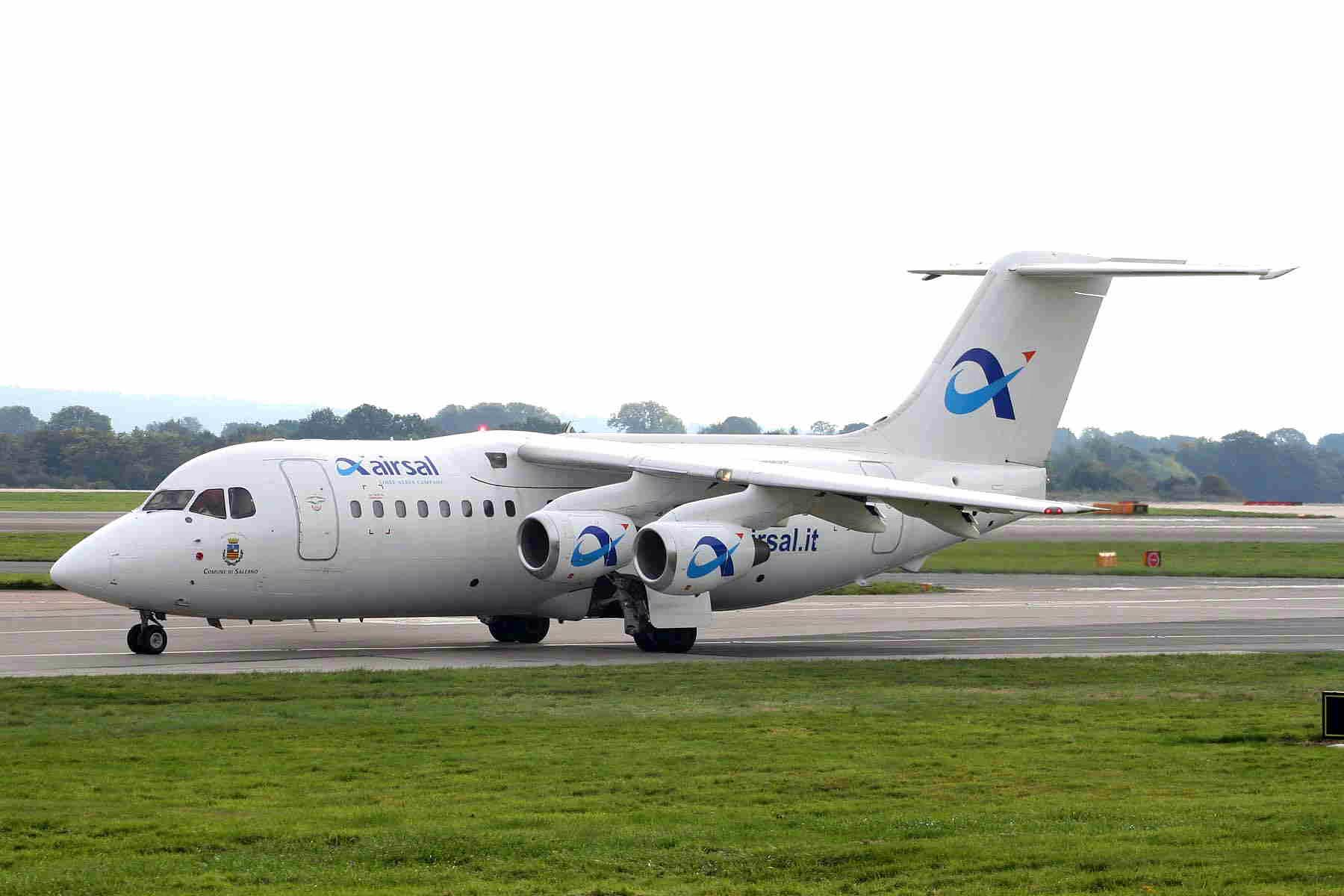 Air Sal, Italy. Operated by Flightline